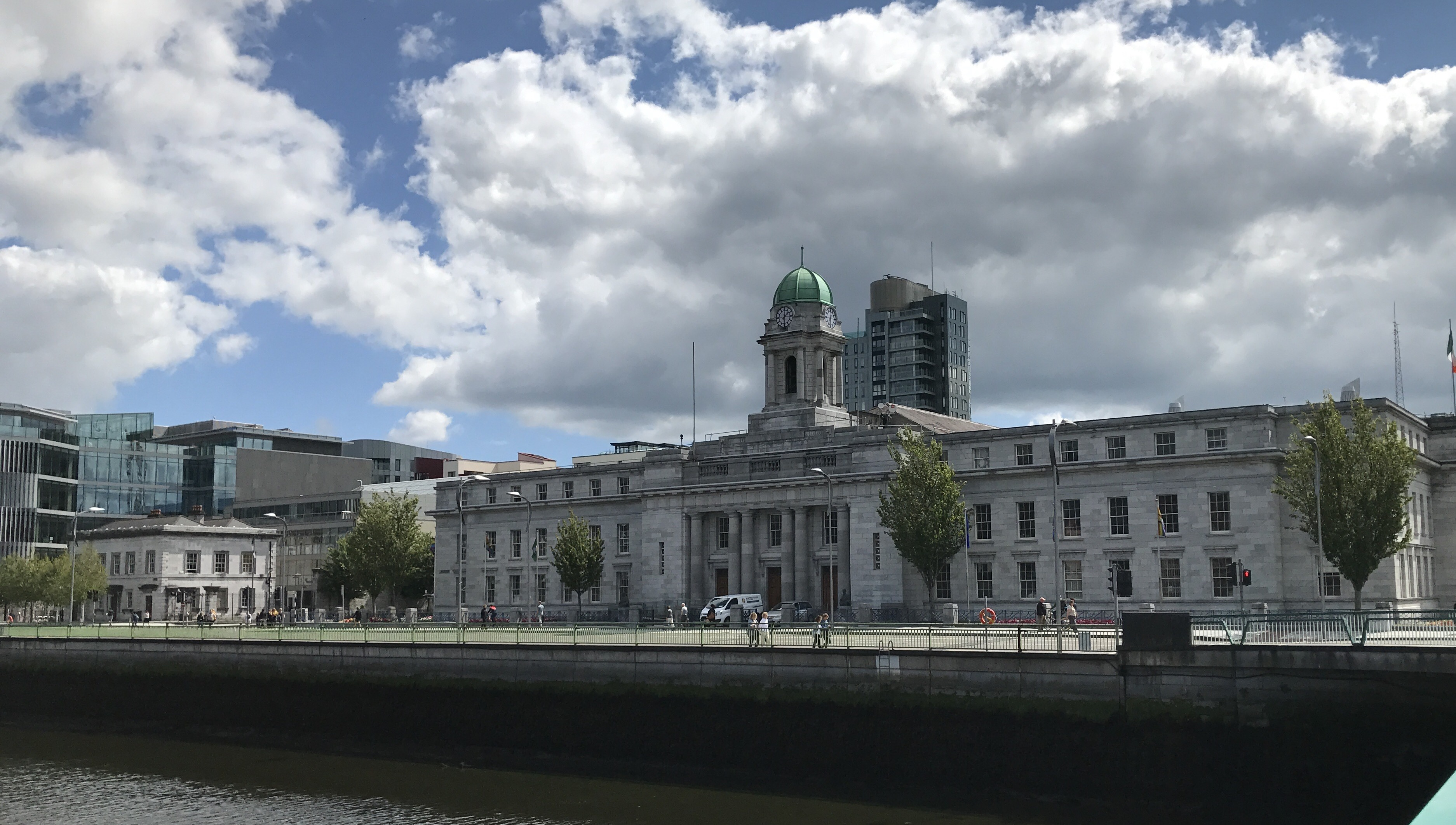 Cork City Hall 2017